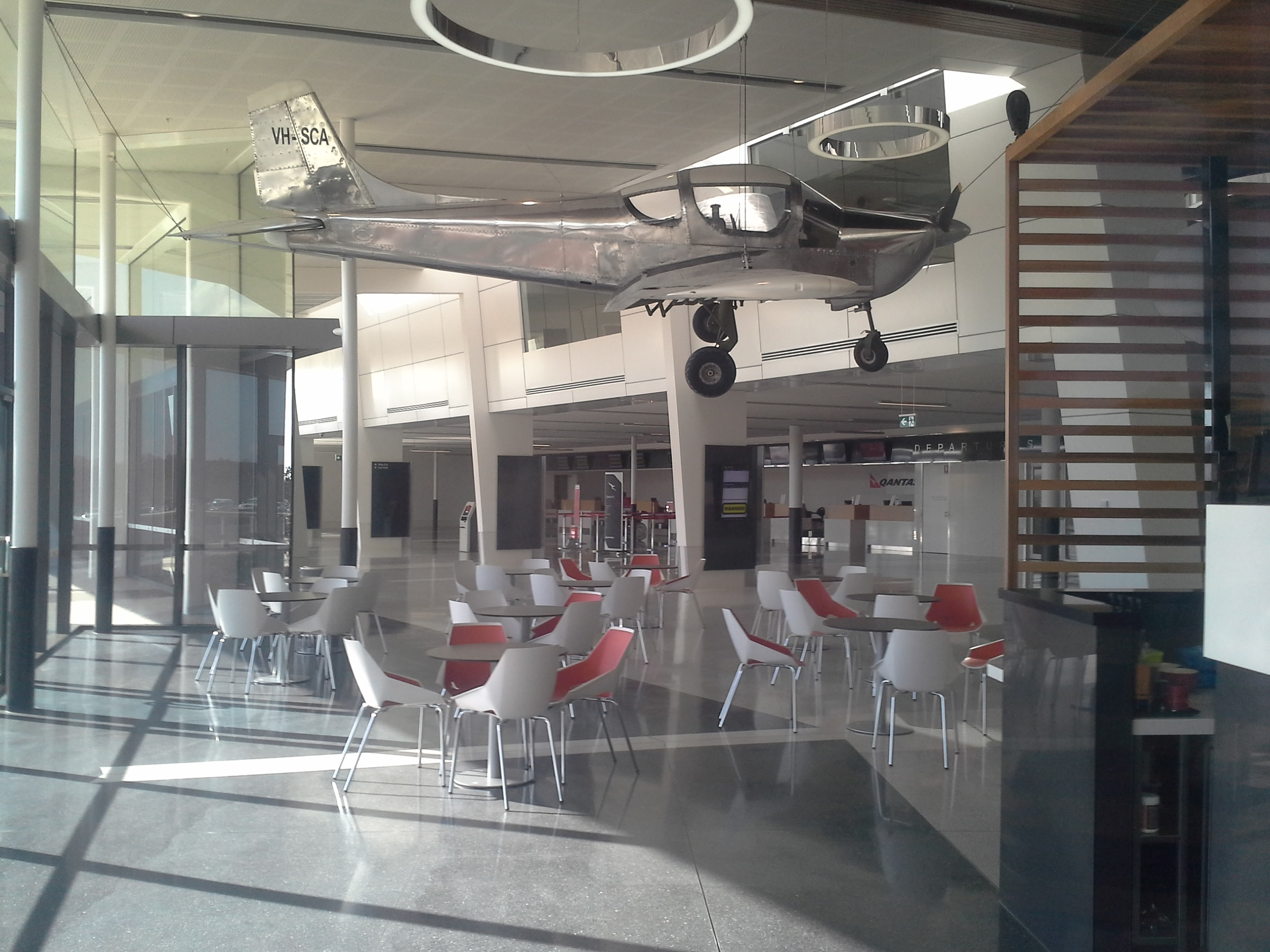 Photograph of the interior of the terminal building at Brisbane West Wellcamp Airport near Toowoomba, Queensland. Photo depicts the QantasLink check in counter, a café and the sole prototype of the Southern Cross Aviation SC-1 aircraft.